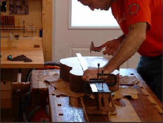 Stephen Marchione working in Houston studio.